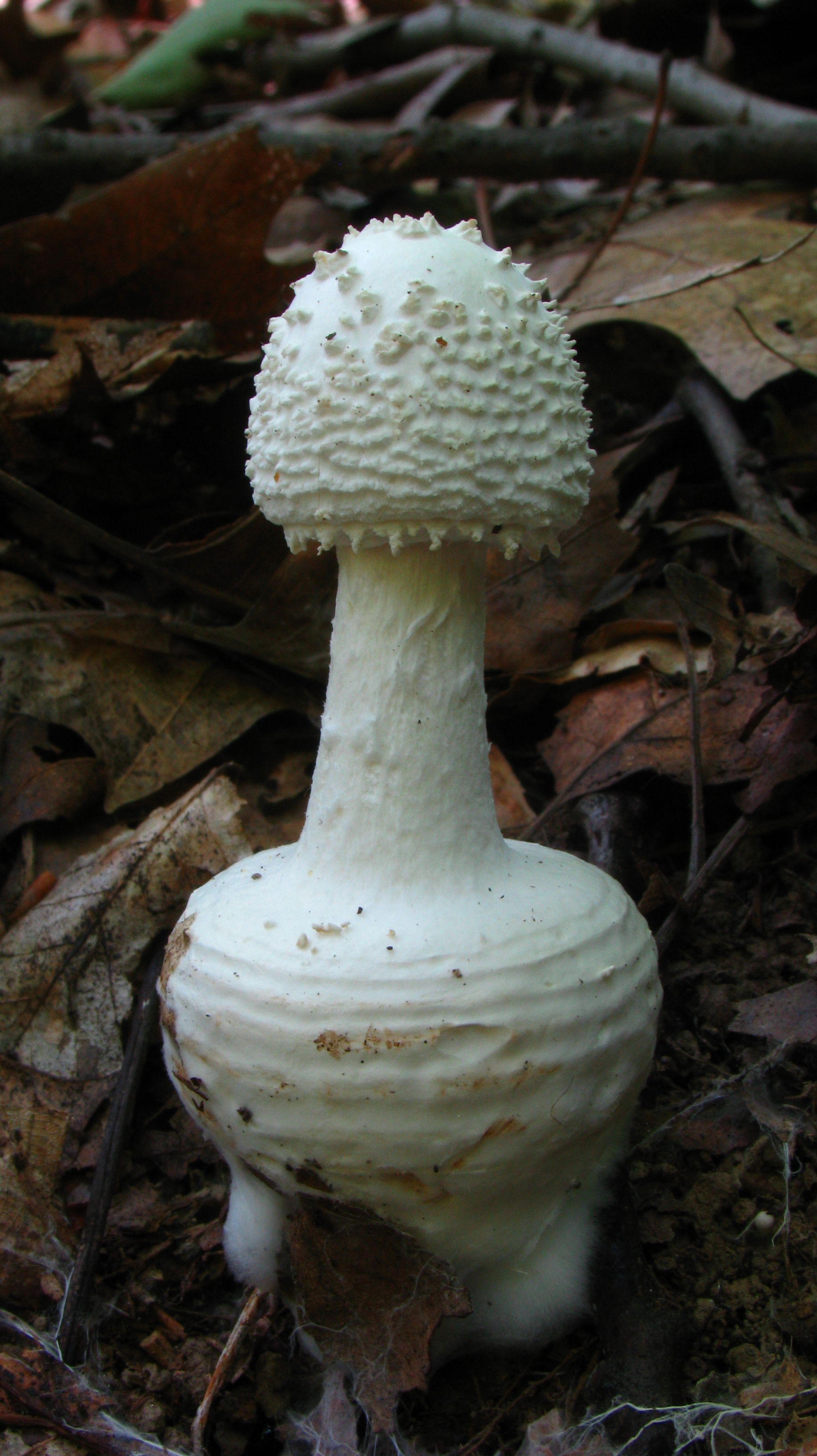 The mushroom Peck. Photographed in Wayne National Forest, Athens Co., Ohio, USA.